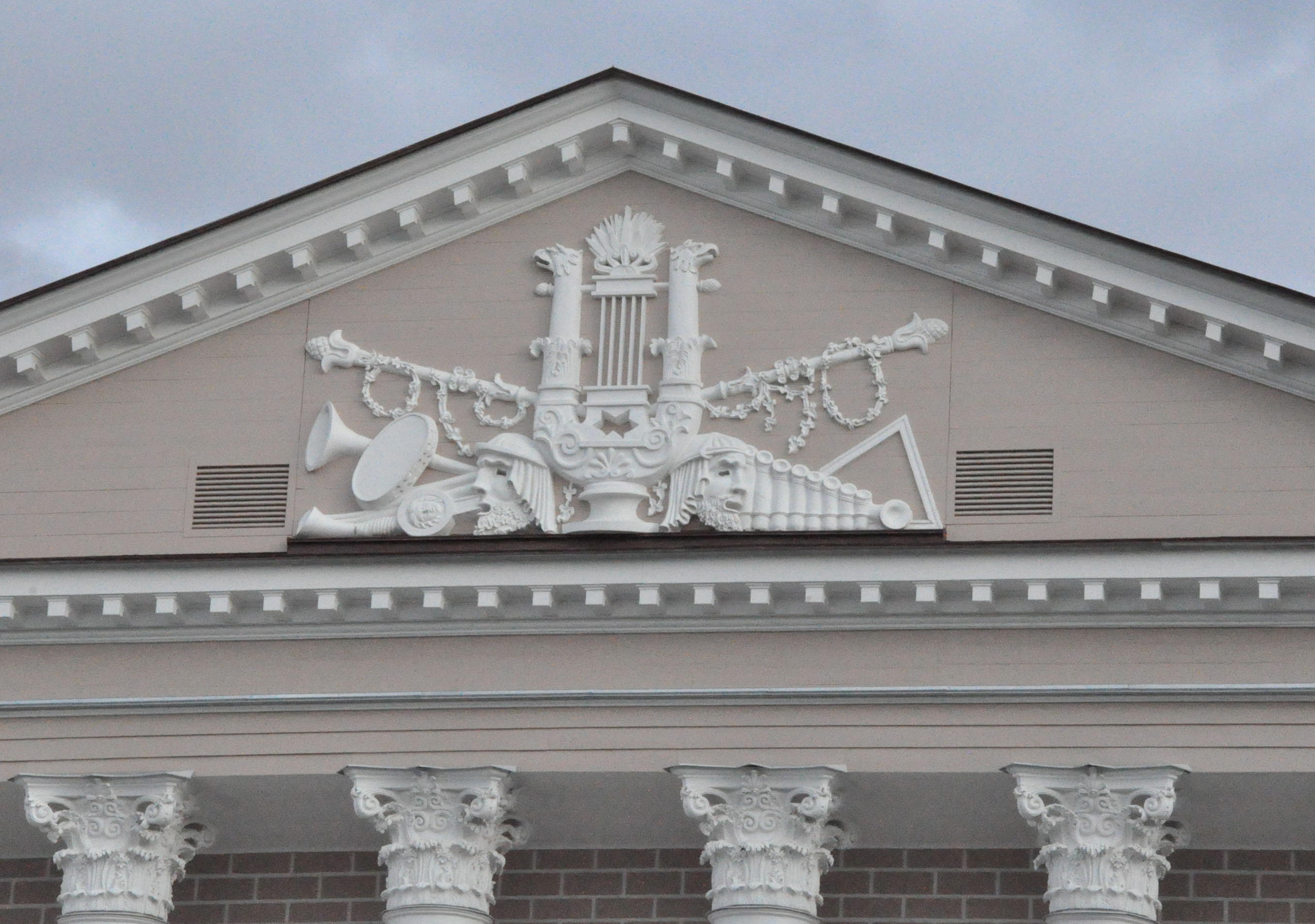 Kamennoostrovsky theatre in Saint Petersburg. Pediment.